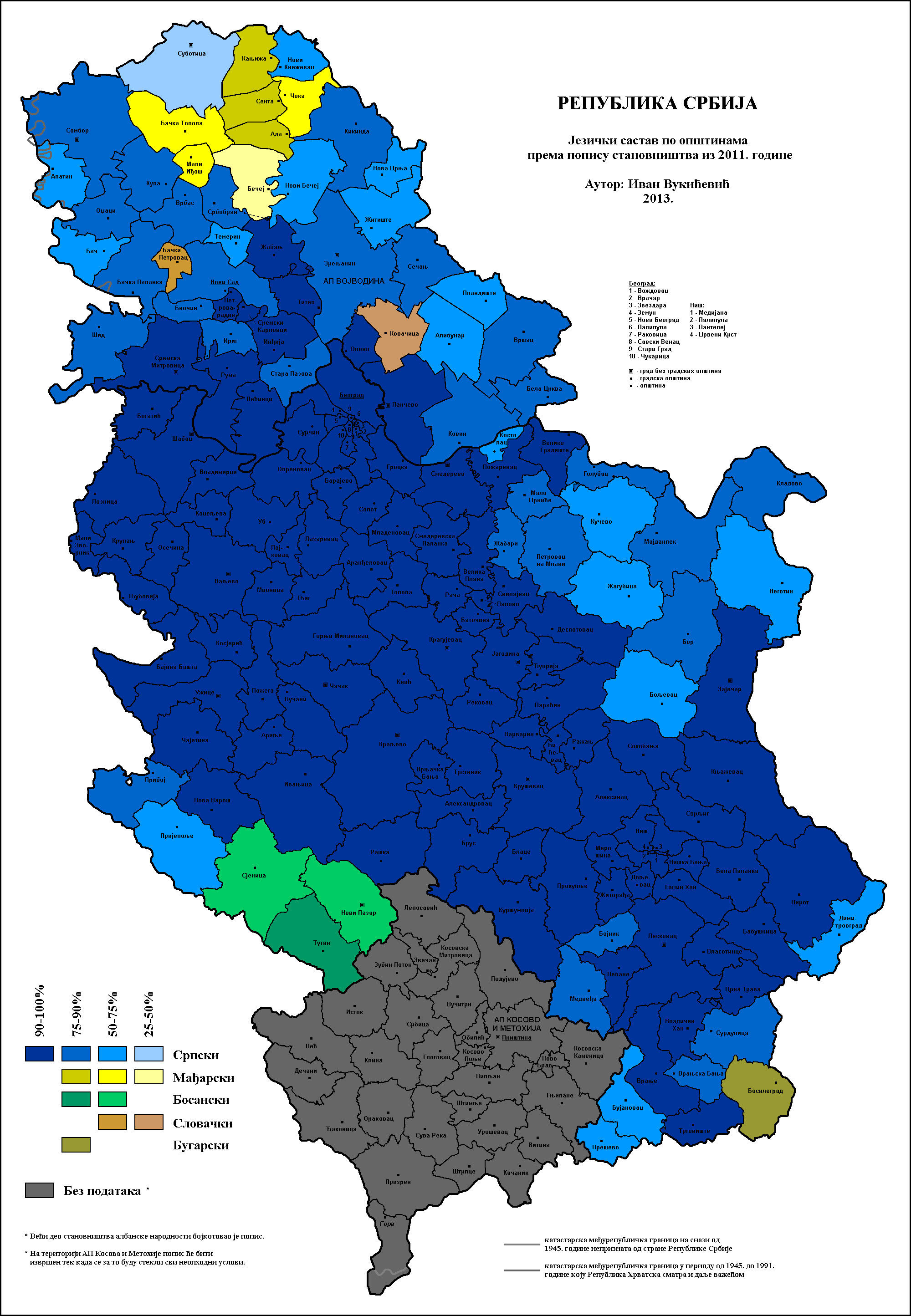 Linguistic structure of Serbia by municipalities 2011.